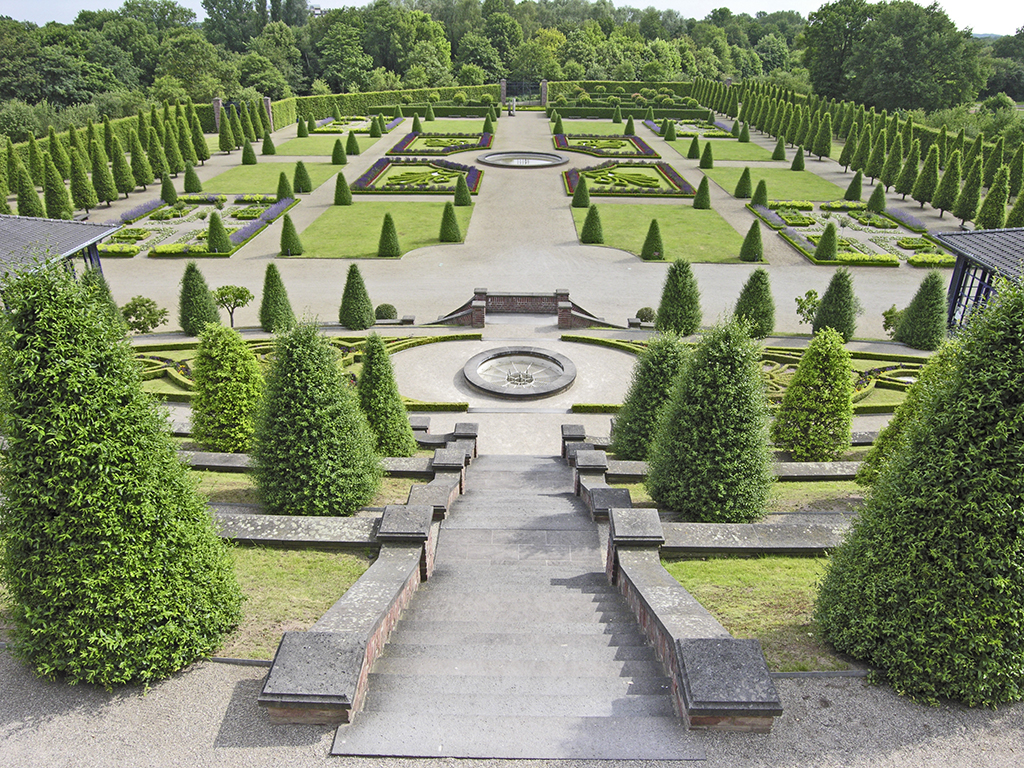 Cloister Kamp, terraced garden, Kamp-Lintfort